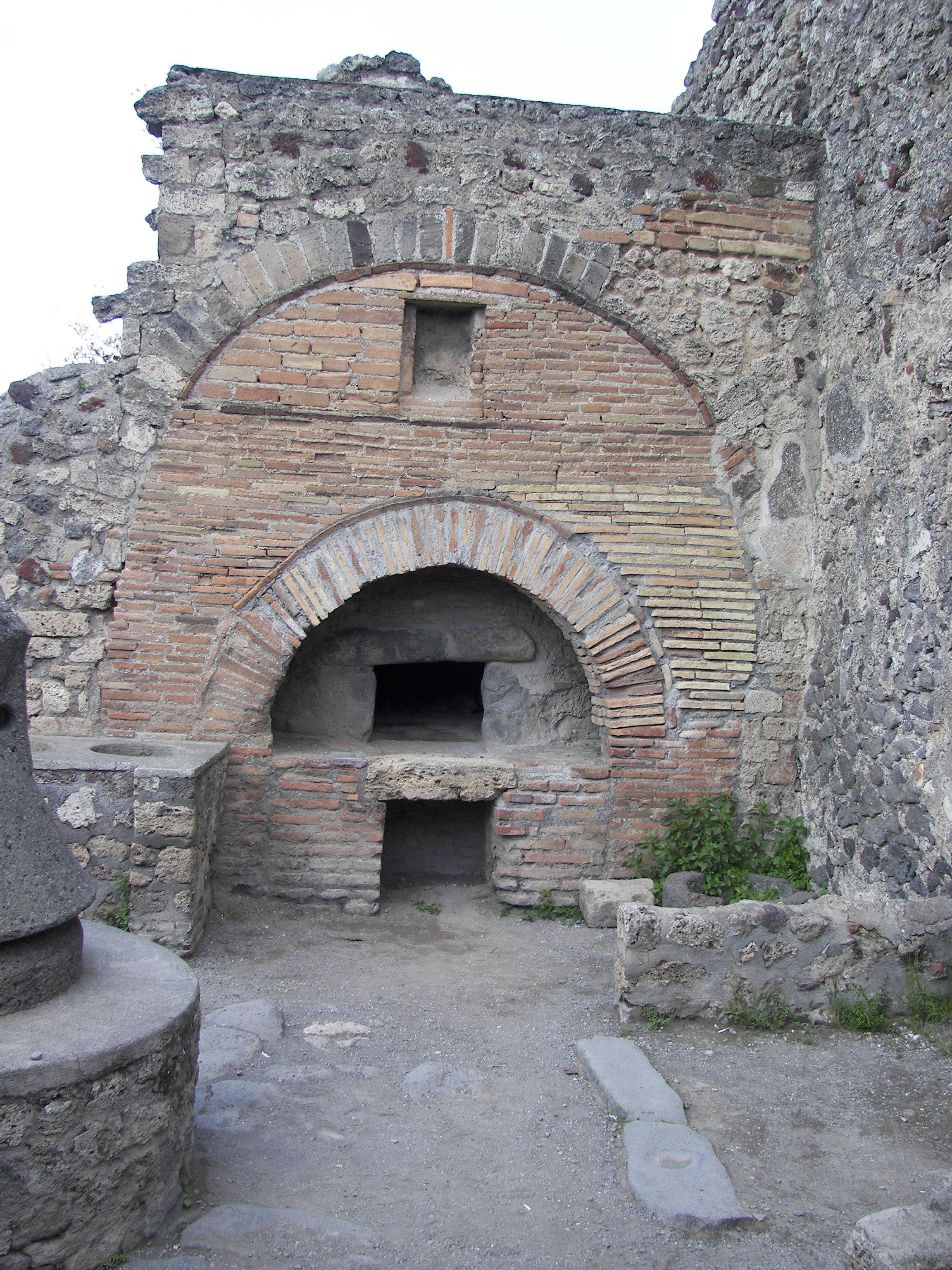 Oven in a bakery in Pompeii. Bakery is at VI.6.17.